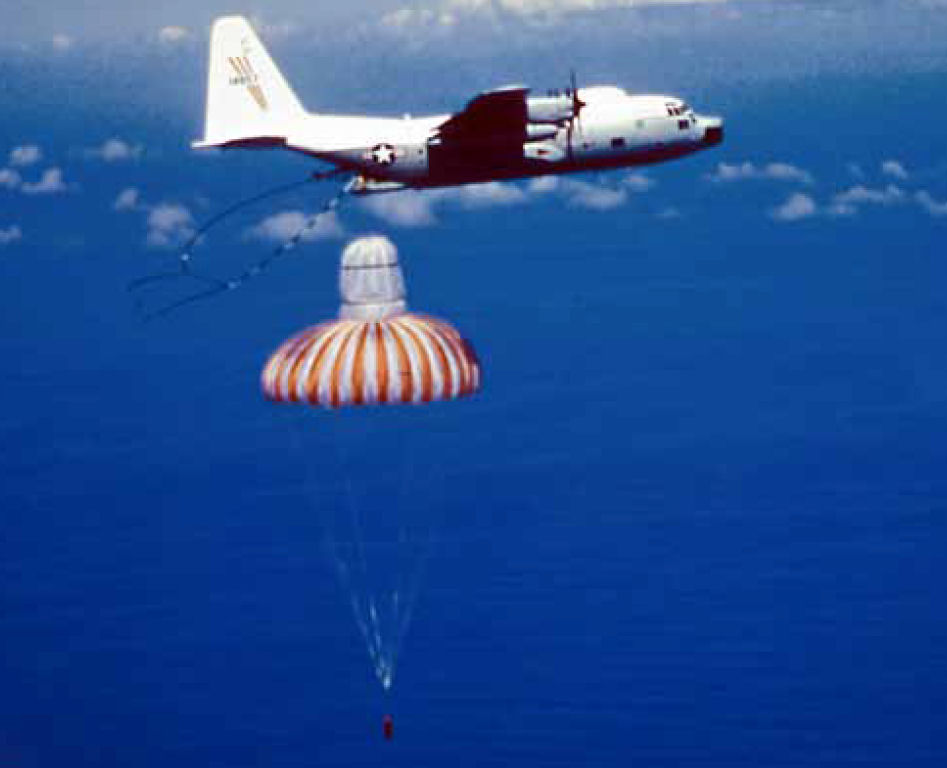 6593d Test Squadron - Lockheed JC-130B about to recover the white cone (or conical extension) of a Mark 8 parachute. The cone had reinforcement lines that were snagged by the JC-130 hooks during a recovery./Photo credit: USAF